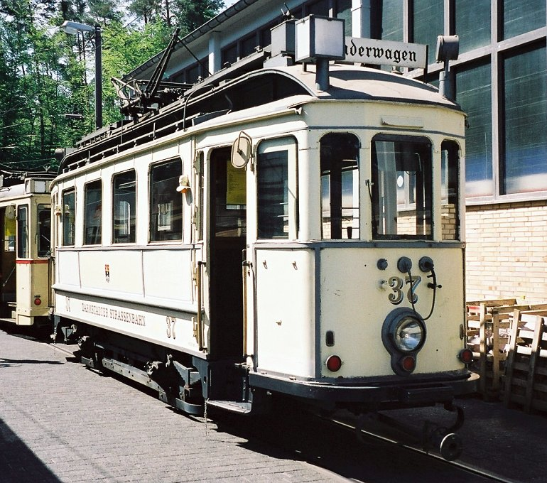 Old tram car number 37 in Darmstadt, germany My own photo from 30-may-2004